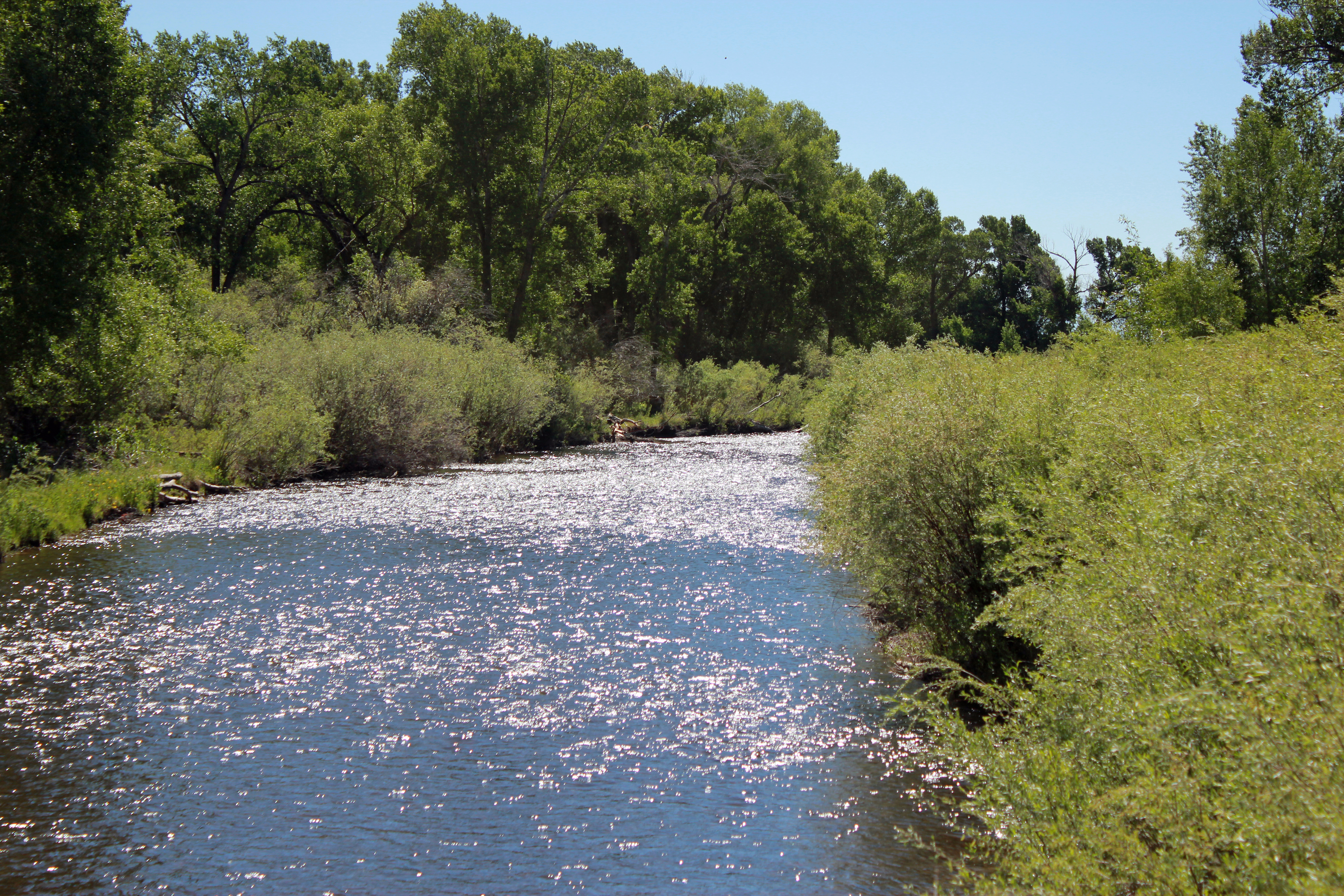 The Conejos River. The picture was taken at the point where the river passes under US 285 in Conejos County, Colorado, a few miles north of Antonito.